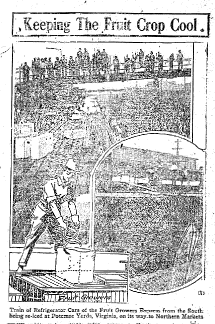 Newspaper photo showing ice being loaded into Fruit Growers Express reefer cars.